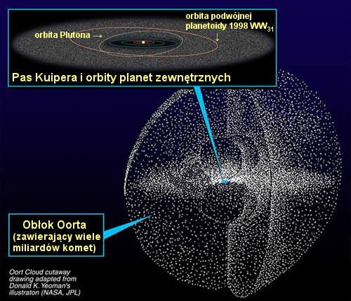 Note: See the version numbered to create or enhance one translation. If you can, help make this description accessible to all by translating it into other languages – thanks!